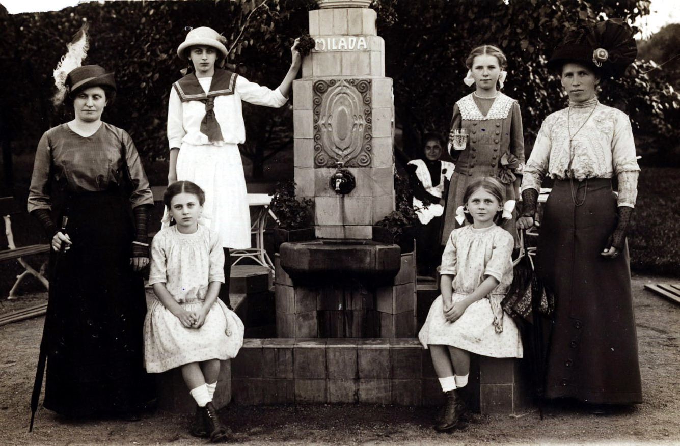 Poděbrade, spring of water Milada, around 1913